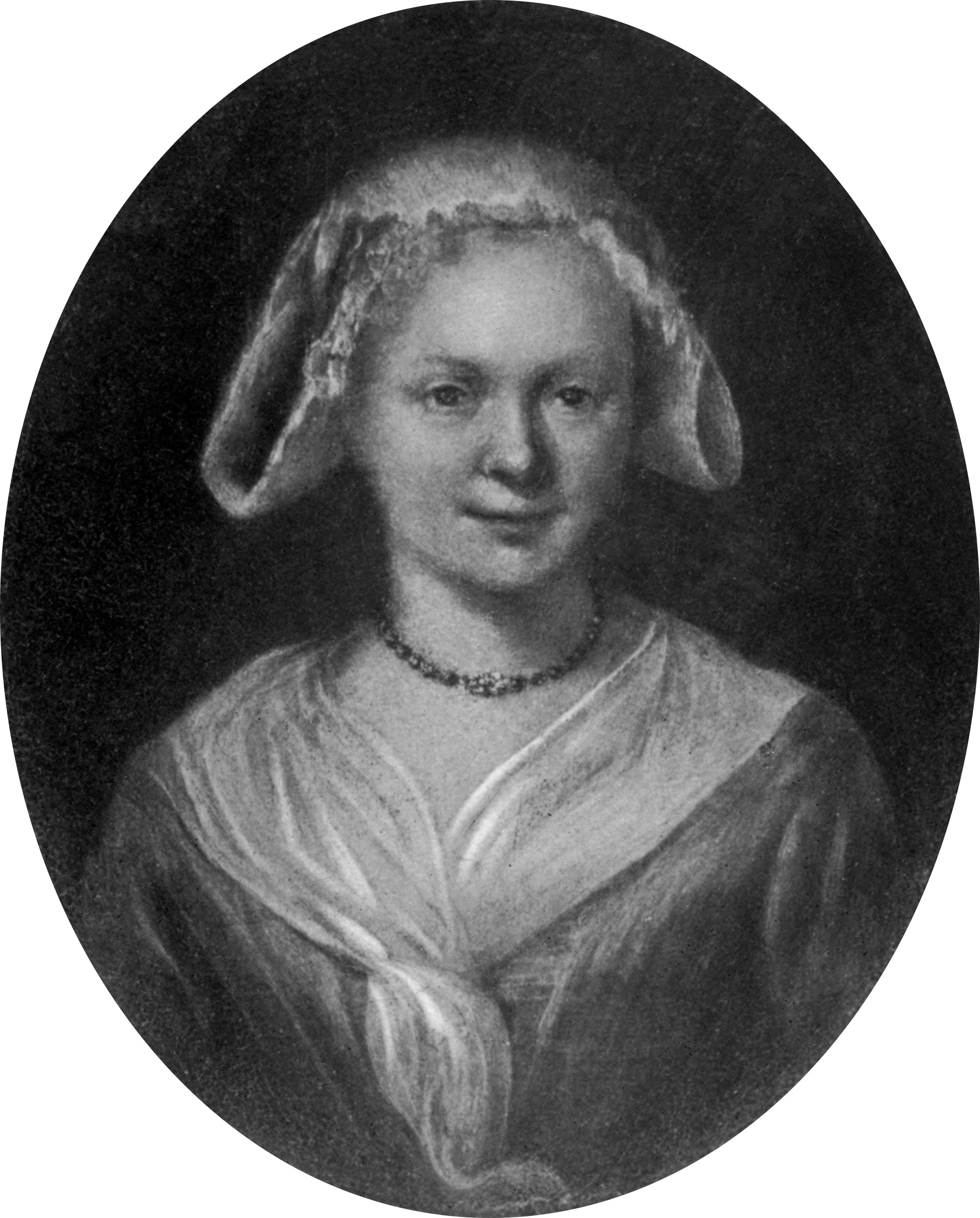 Henriette Wolters 1682-1741, painter